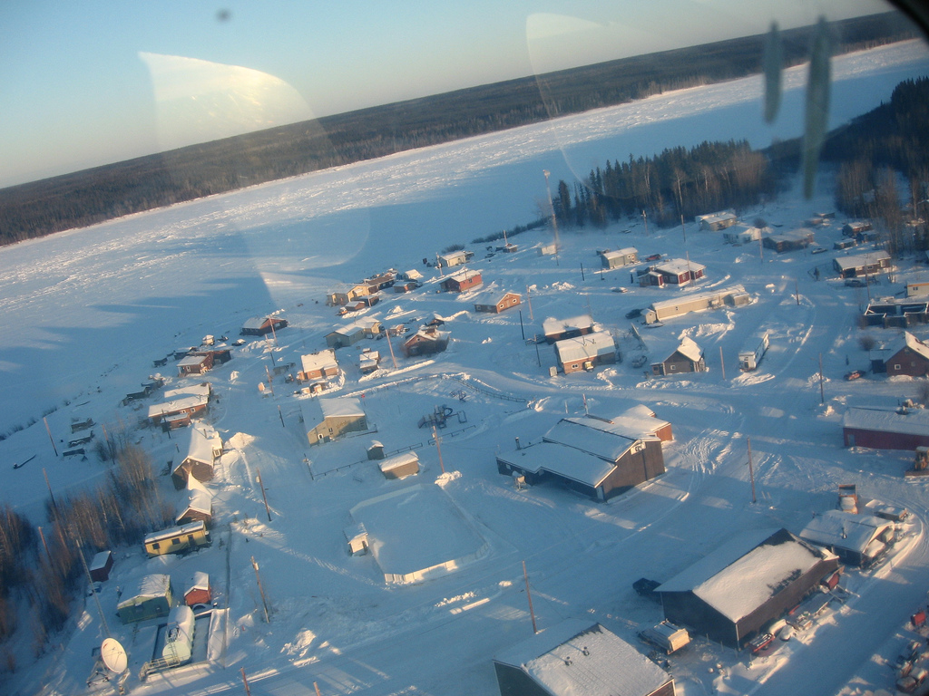 Jean Marie River from the air